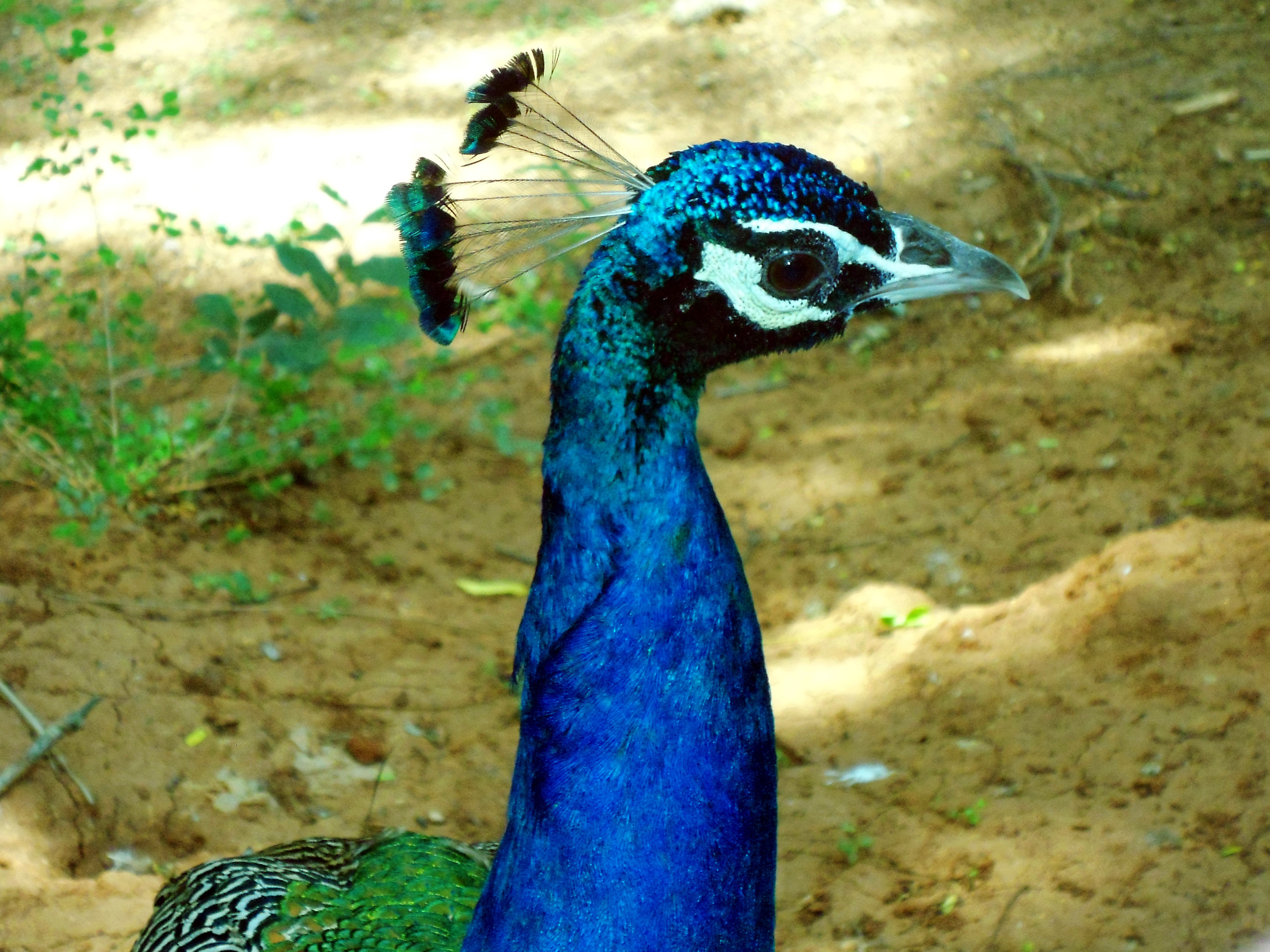 Indian Peafowl (Pavo cristatus) at Kambalakonda Wildlife Sanctuary in Visakhapatnam